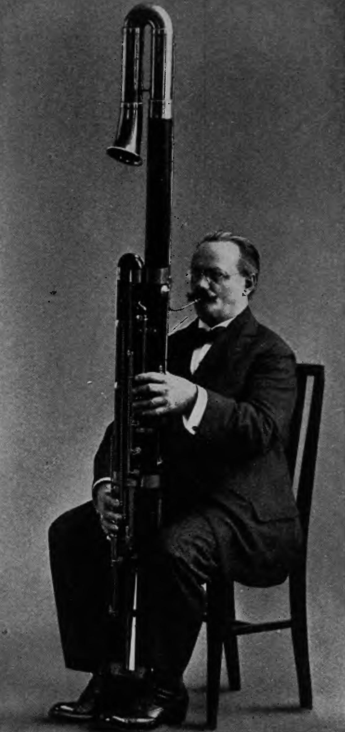 Max F. WenningMetropolitan Opera House Orchestra, N. Y.